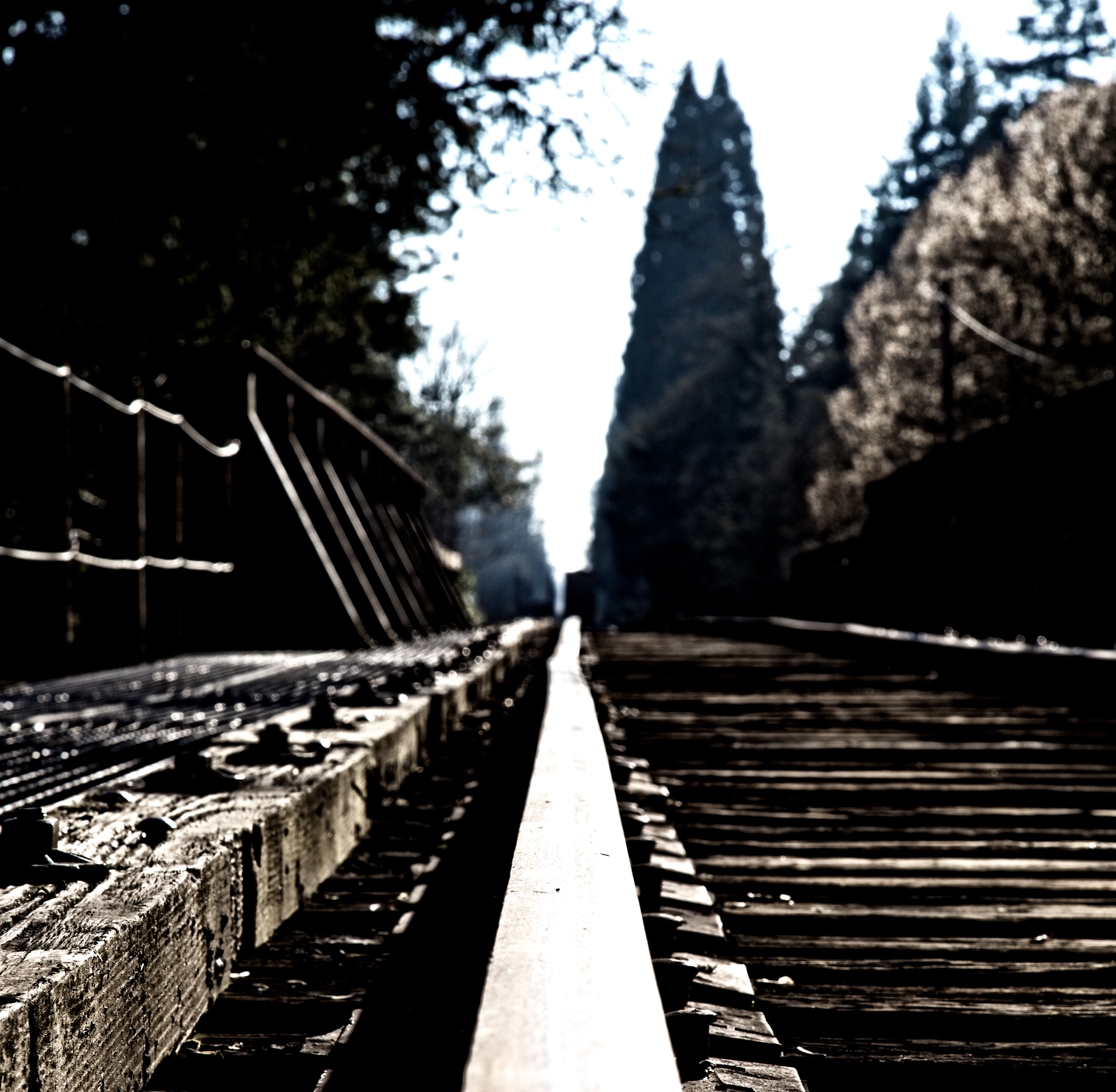 Derived from File:Bleach bypass Example Greg Keene.jpg